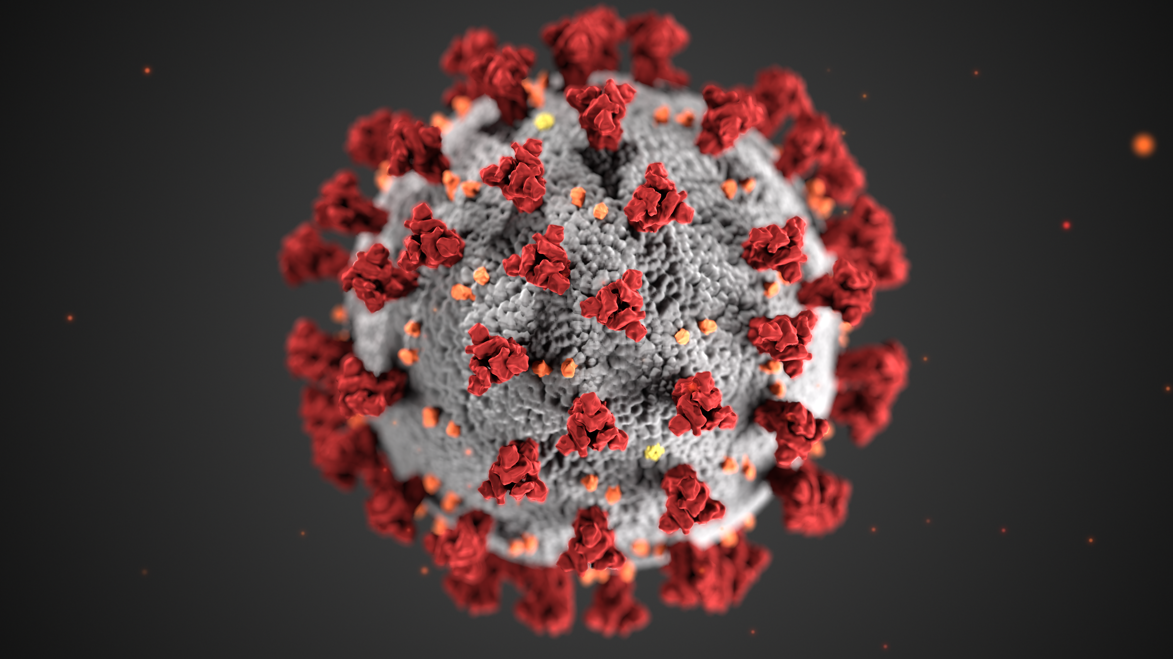 This illustration, created at the Centers for Disease Control and Prevention (CDC), reveals ultrastructural morphology exhibited by the 2019 Novel Coronavirus (2019-nCoV). Note the spikes that adorn the outer surface of the virus, which impart the look of a corona surrounding the virion, when viewed electron microscopically. This virus was identified as the cause of an outbreak of respiratory illness first detected in Wuhan, China.